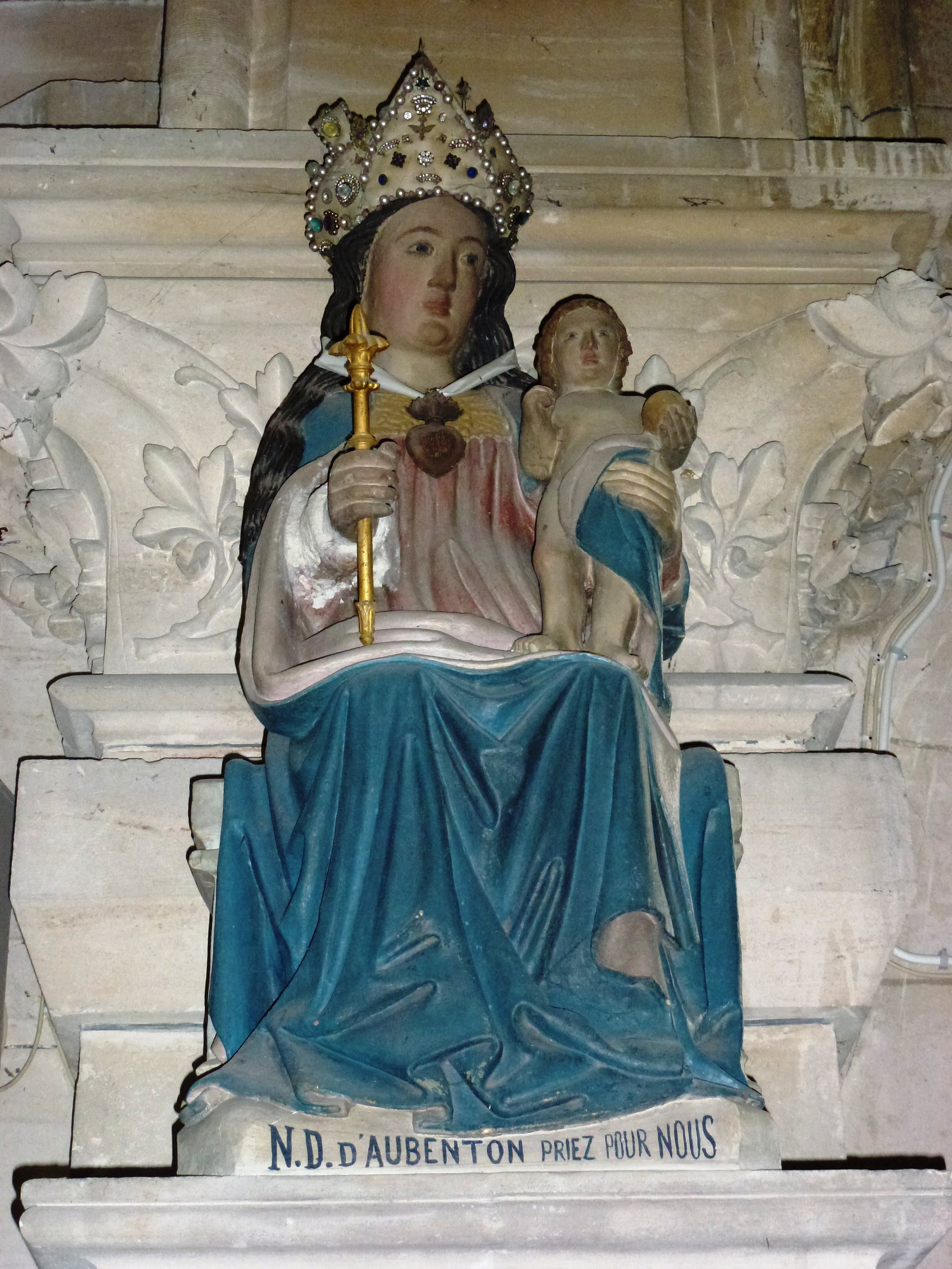 Aubenton (Aisne) Église Notre-Dame, statue N.D.-d'Aubenton